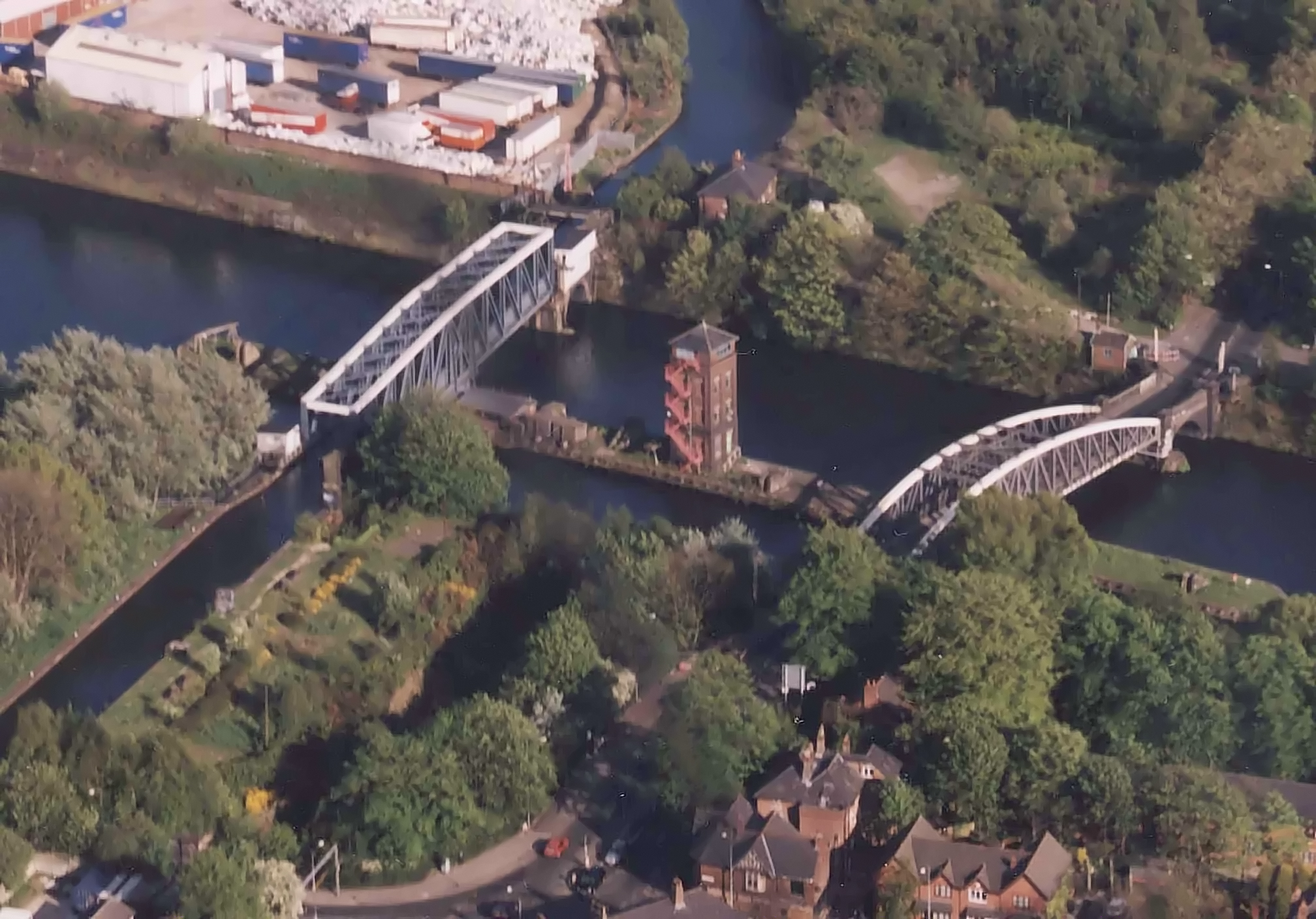 Barton swing acqueduct and Barton Road swing bridge from the air